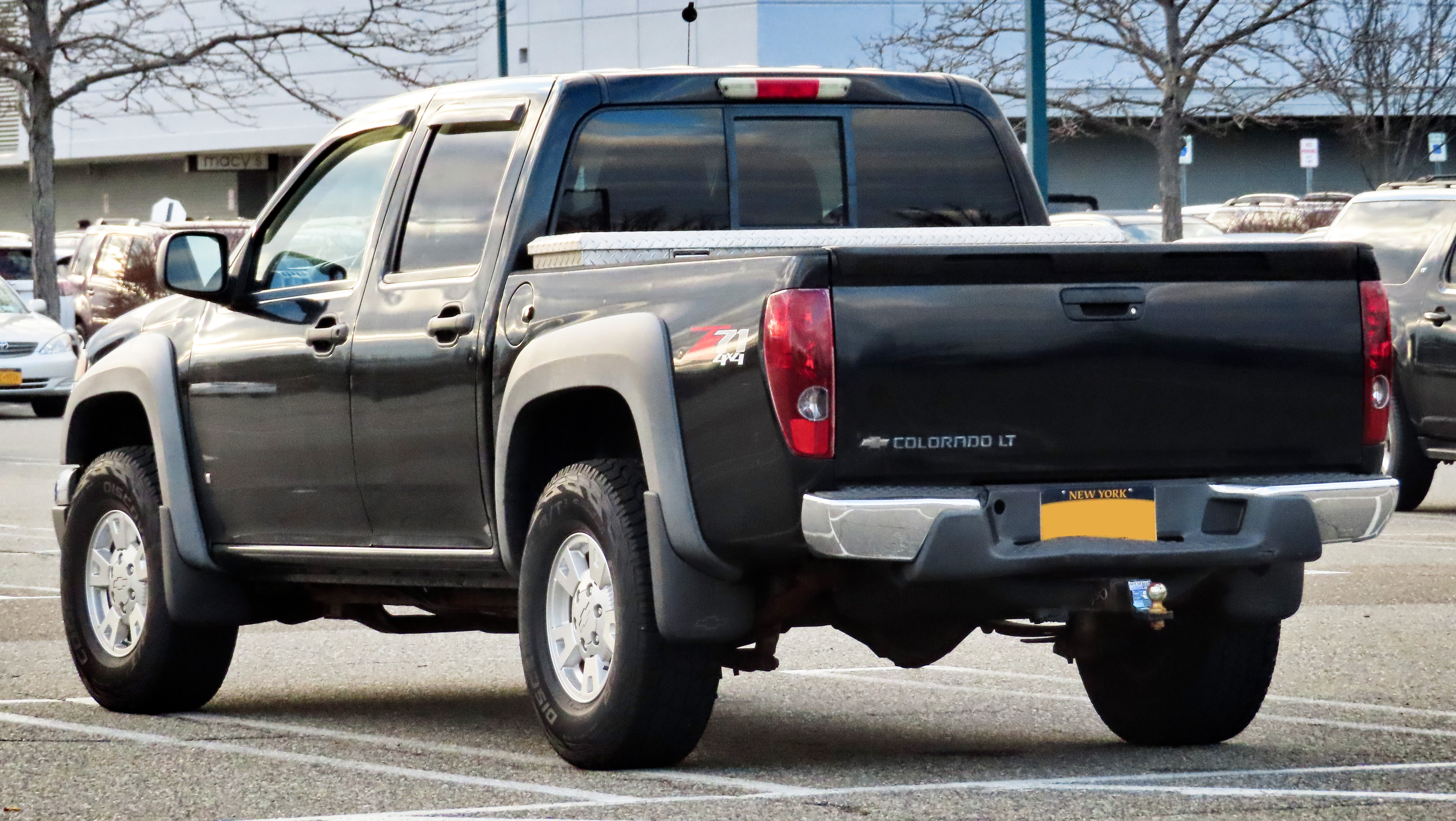 A 2007 Chevrolet Colorado LT photographed at Broadway Mall, in Hicksville, New York, USA